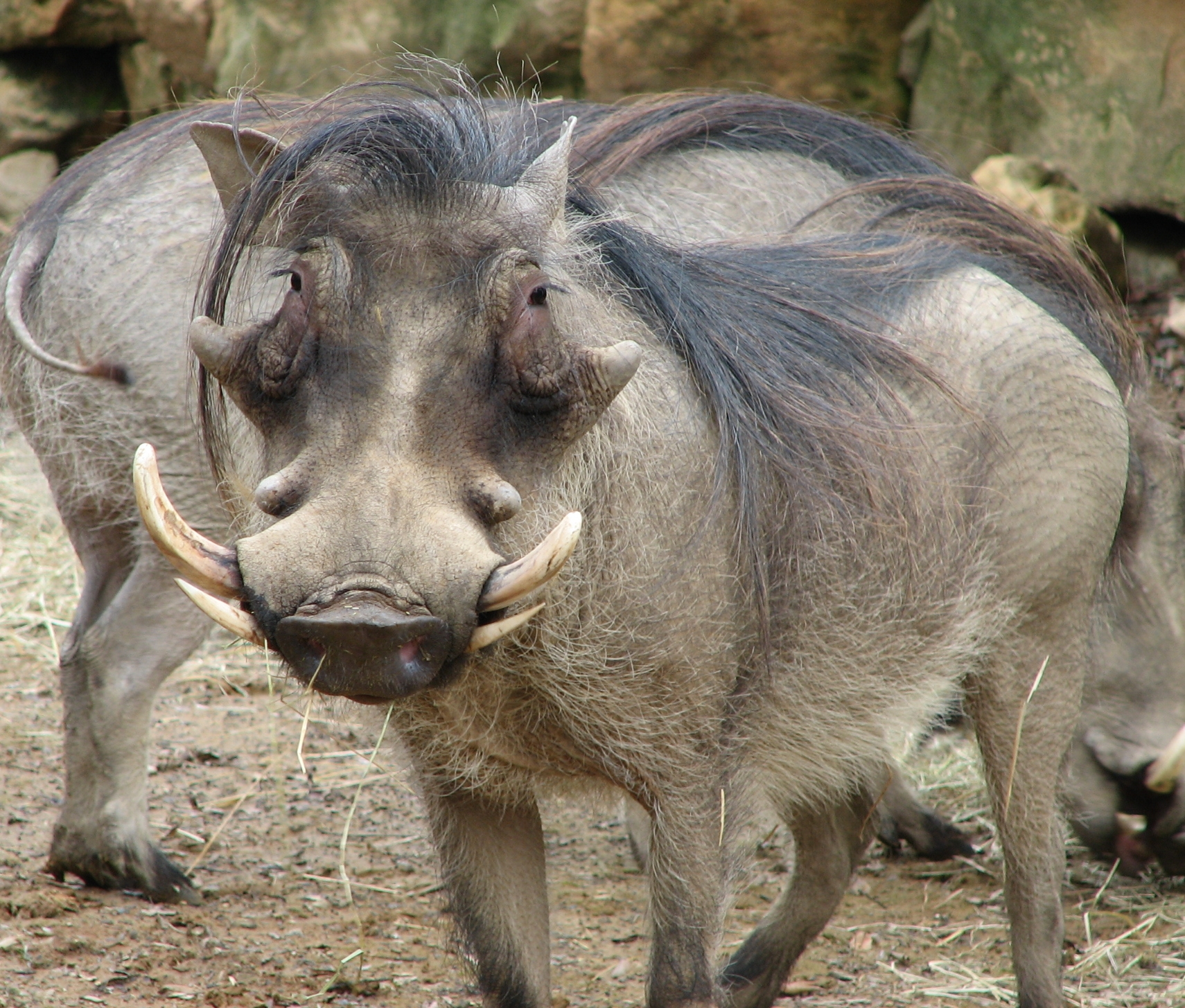 Warthog - Phacochoerus africanus